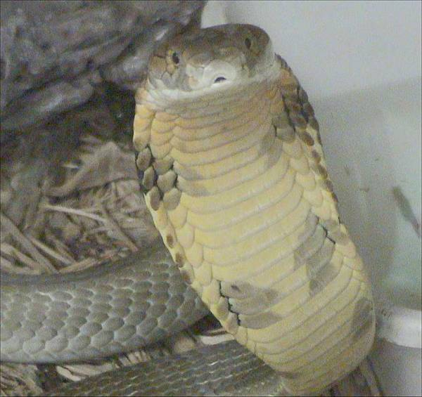 Photographer: User:Dawson